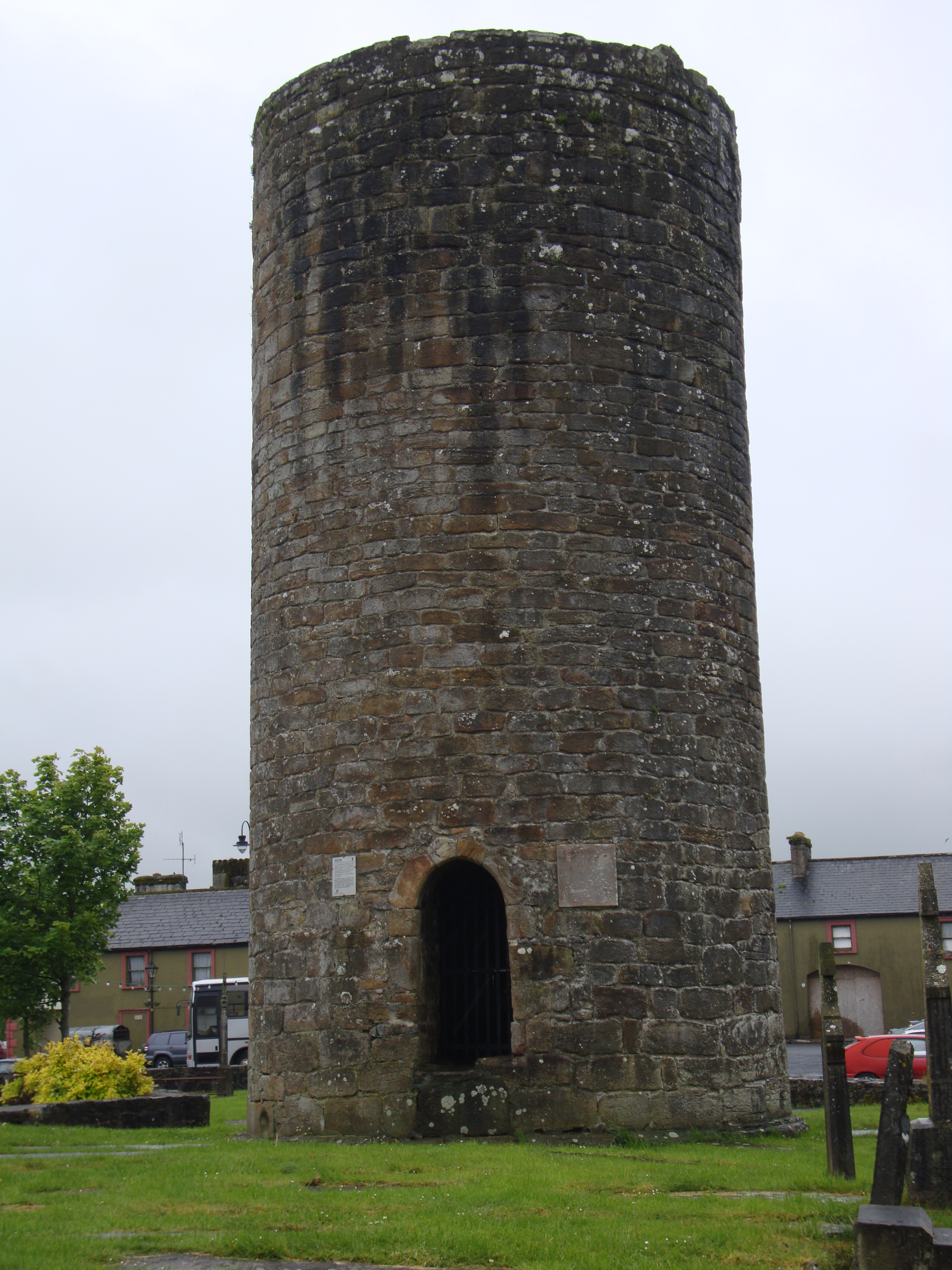 Photograph of Balla round tower, Co. Mayo, Ireland